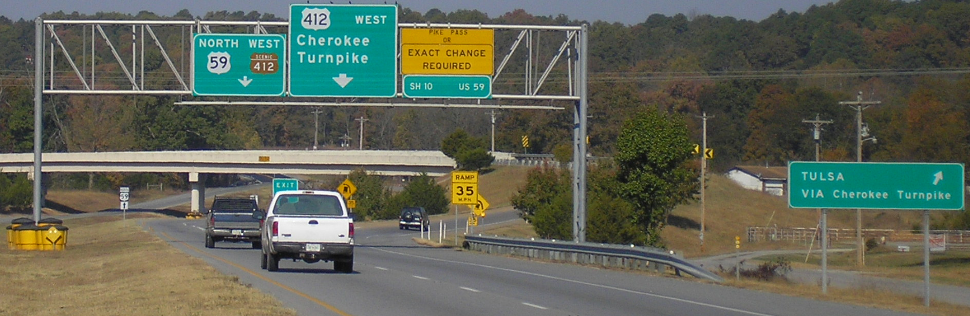 Eastern terminus of the Cherokee Turnpike, east of Kansas, Oklahoma.